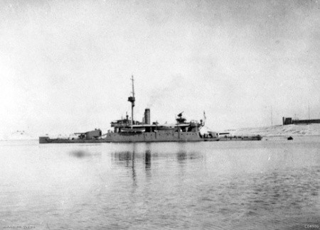 AWM caption : "HMS Humber, (Monitor) in the harbour at Matruh, Western Egypt. She steamed along the coast as occasion required, and assisted the operations by firing on enemy camps." Note that Humber here shows an additional 6-inch gun added aft.